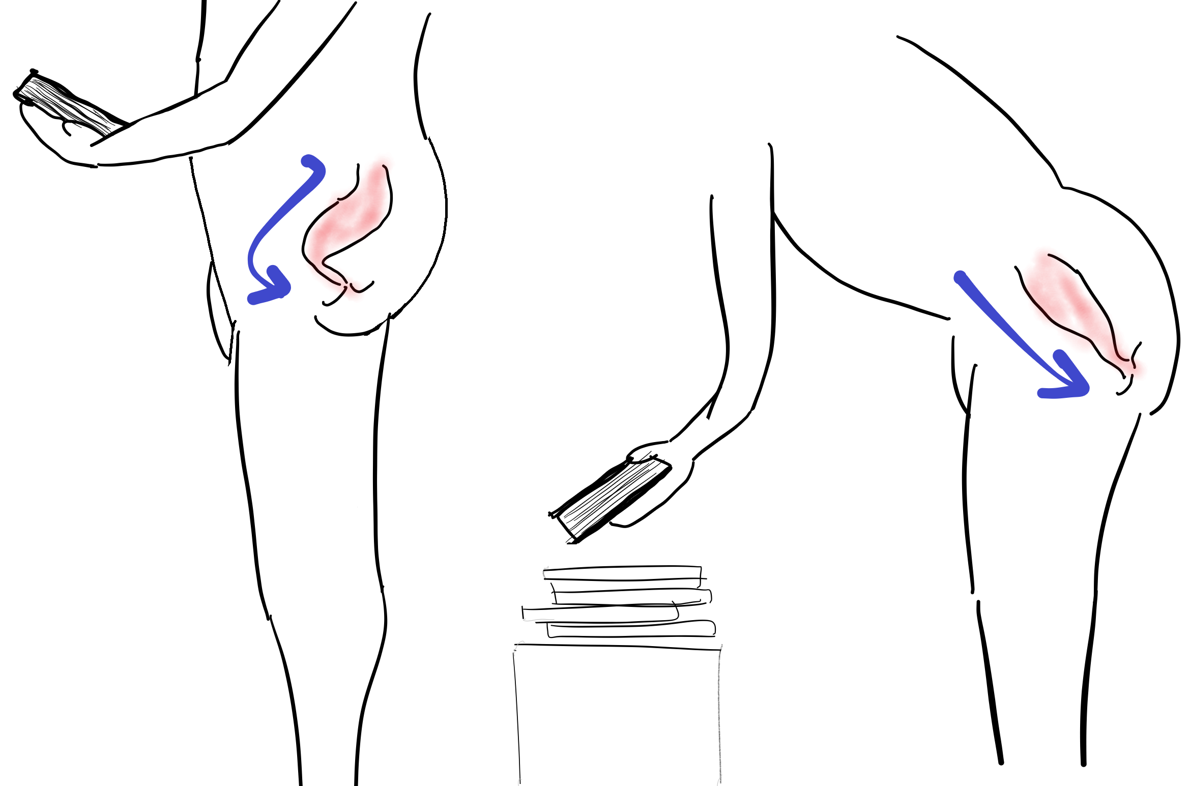 An approximate sketch of the difference in rectal curvature in two postures that people may use in bookstores: standing (left), and leaning over (right). The low displays requiring the second posture are particularly common in Japanese bookstores.